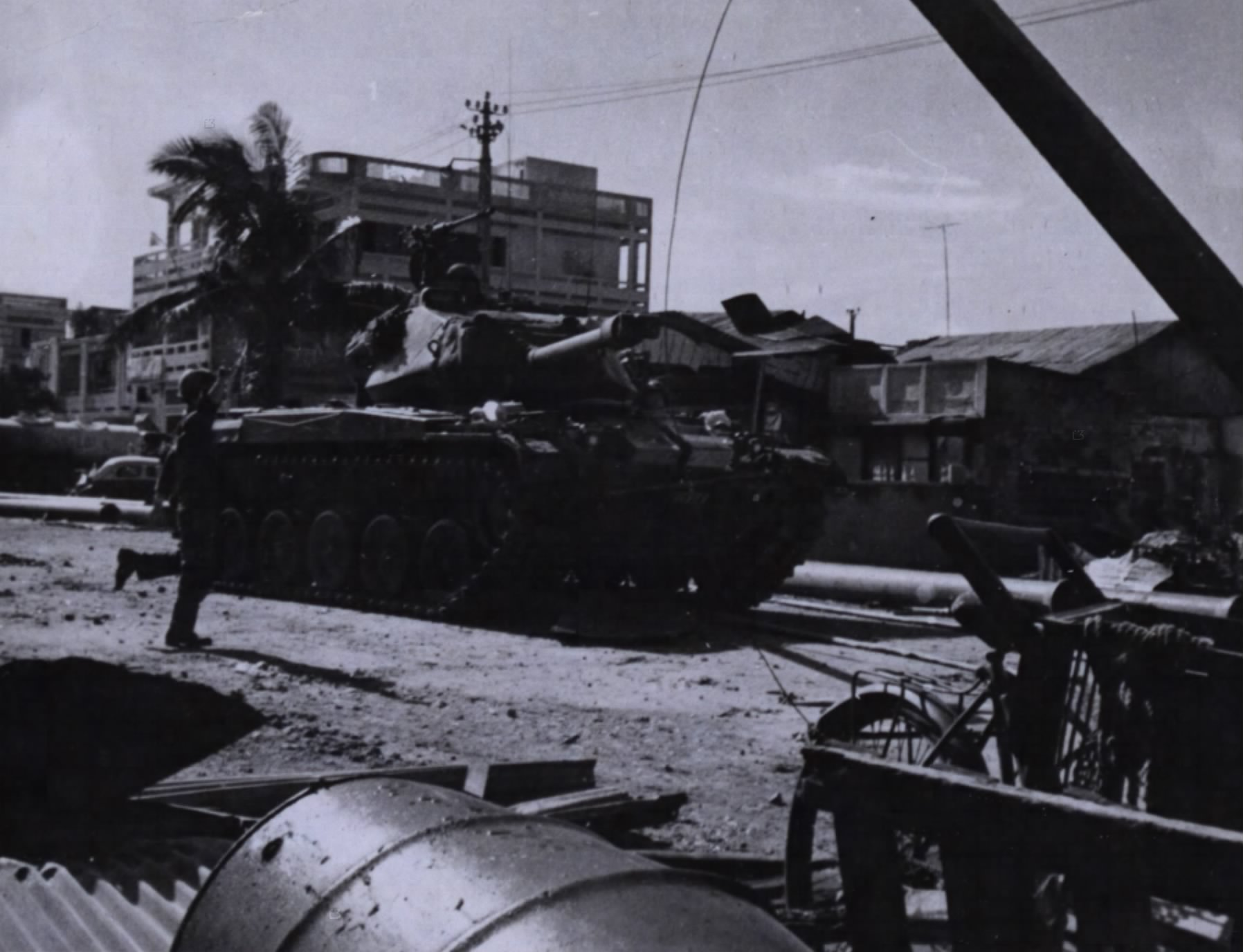 A Vietnamese M41 tank is given the go-ahead to advance on enemy positions in Cholon during fighting in the area.